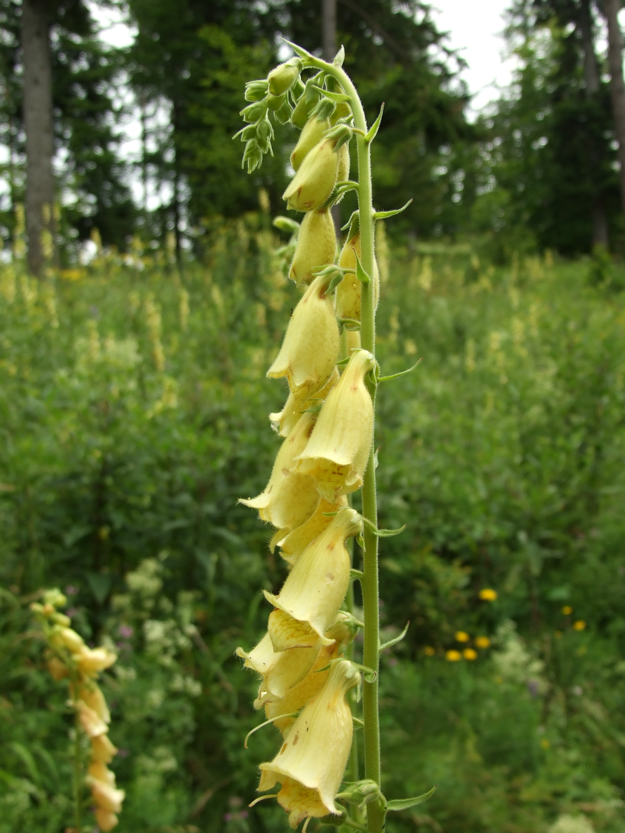 Fauna and flora in Slovenský raj national park, Košice Region, SKhelp